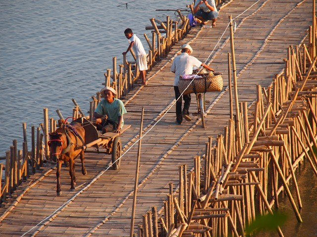 This bridge (between Kompong Cham and Koh Pan) is constructed each year by hand.